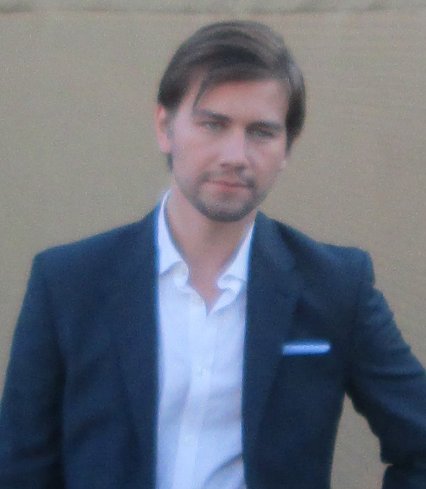 Torrance Coombs at The CW's TV Critics Association’s Summer Press Tour